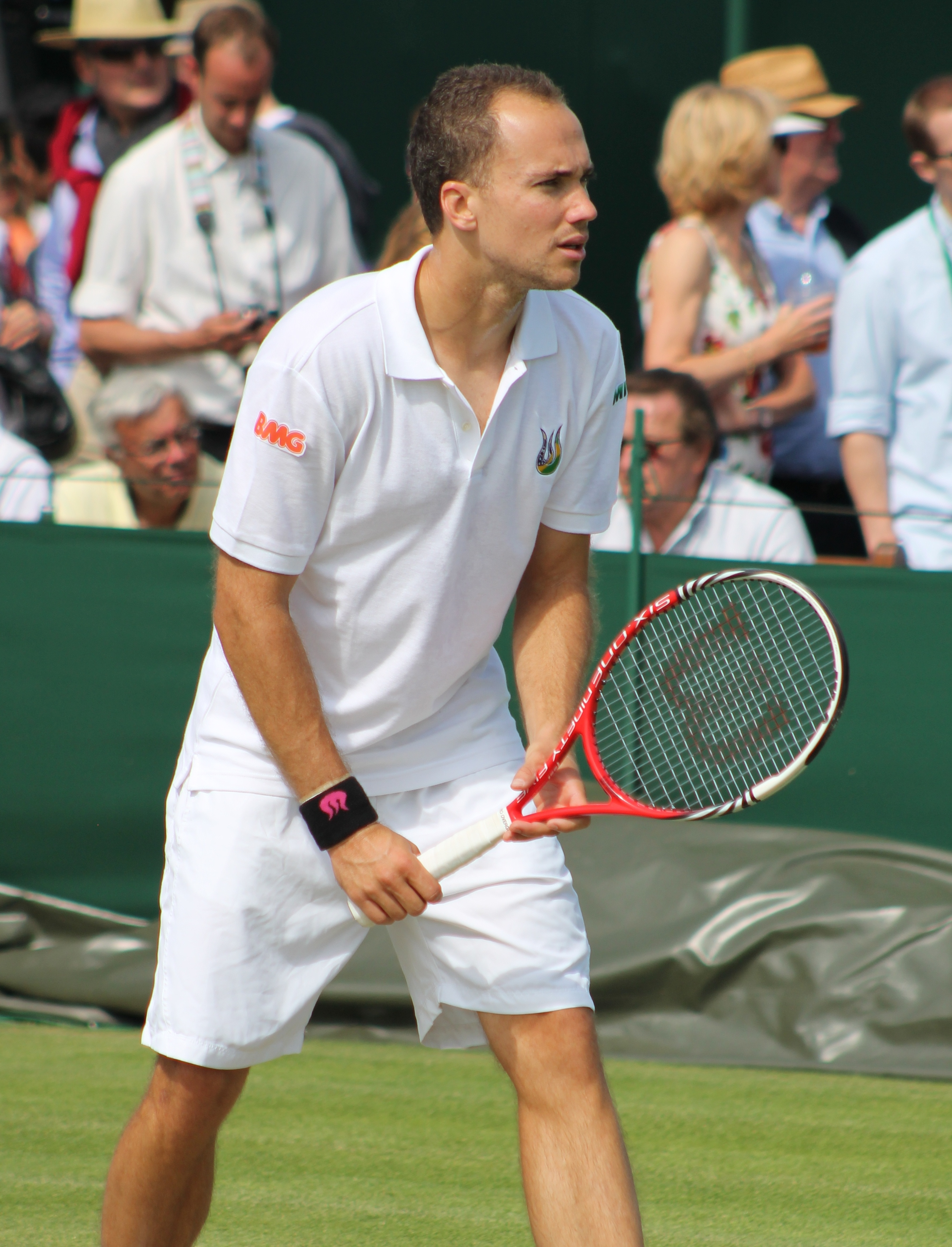 Soares WM13-005